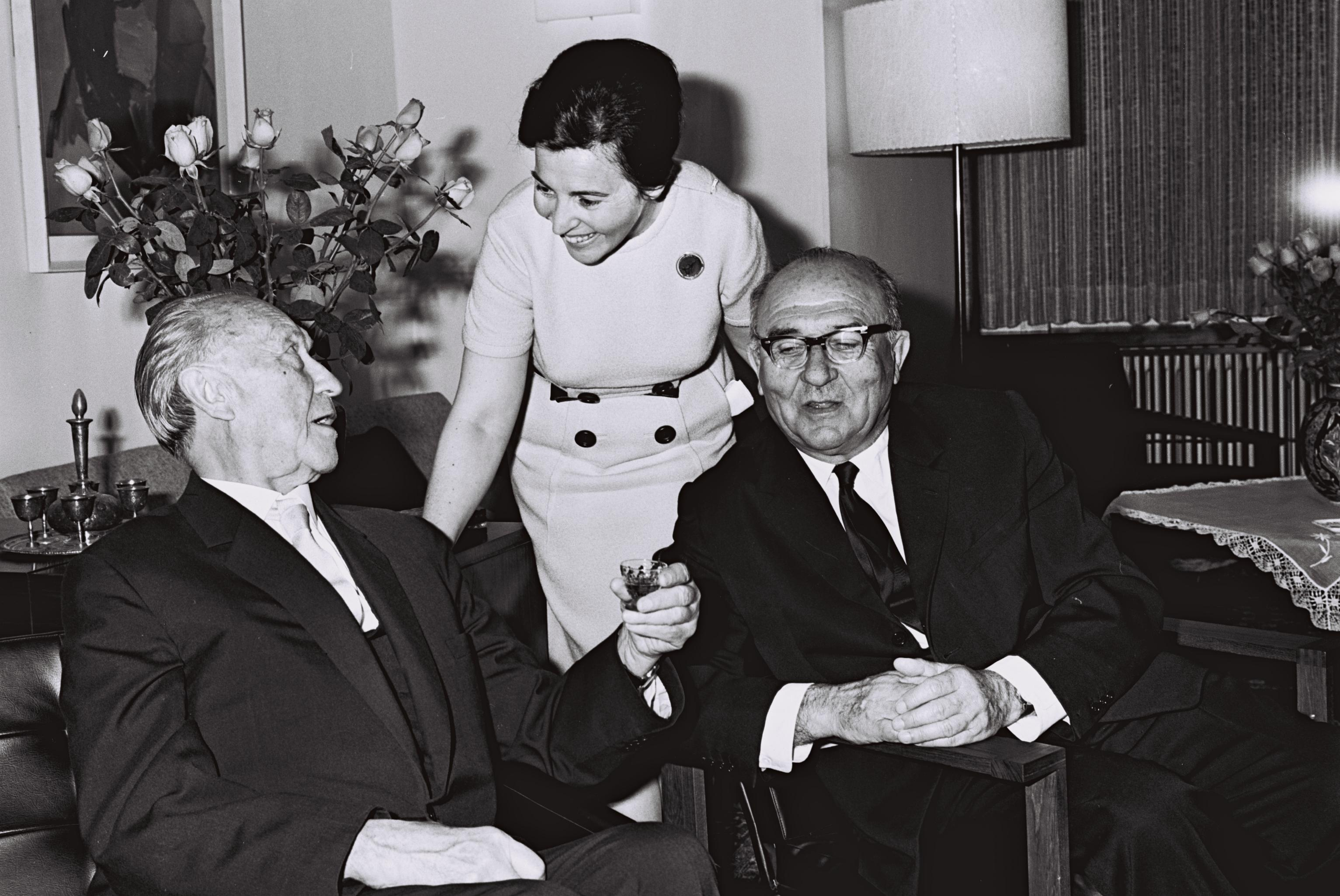 Levi and Miriam Eshkol hosting the former West German Chancellor Konrad Adenauer at the Prime Minister's Residence in Jerusalem, May 3, '66.